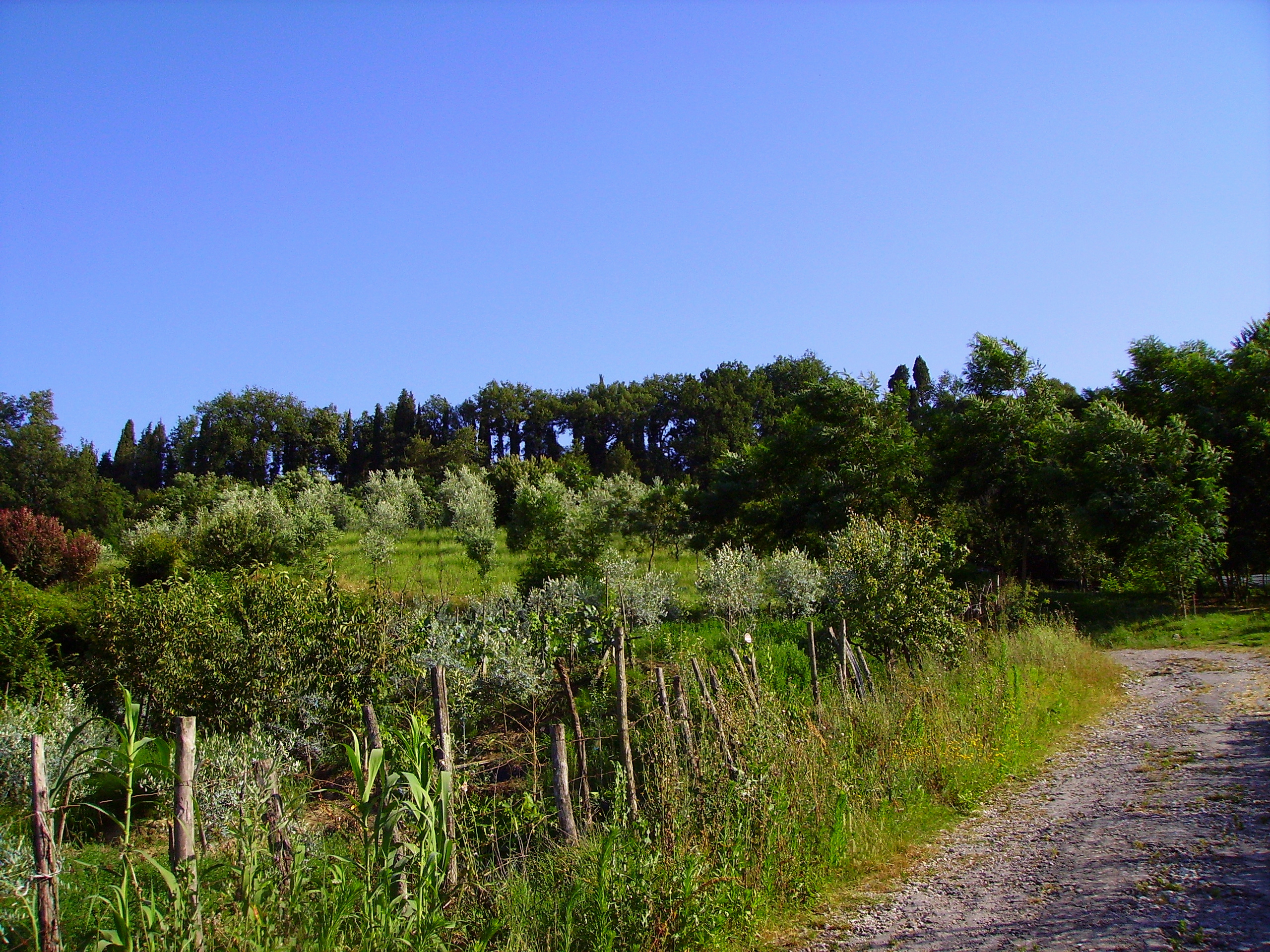 The ancient road that from La Loggia Farm was driving to the castle